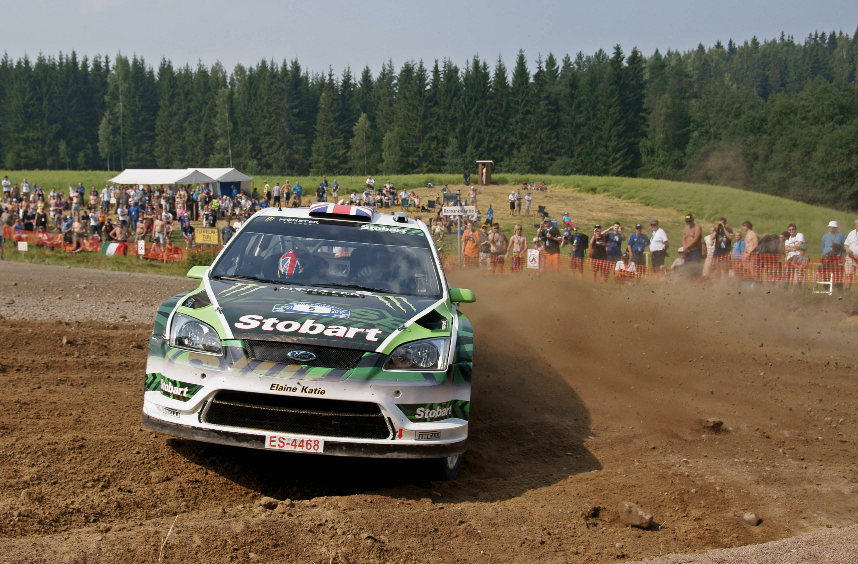 Matthew Wilson driving at Rannakylä shakedown in Muurame.